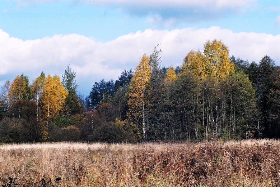 Forest; Kampinos, Autumn 2004; released in 2005 by author M. Betley